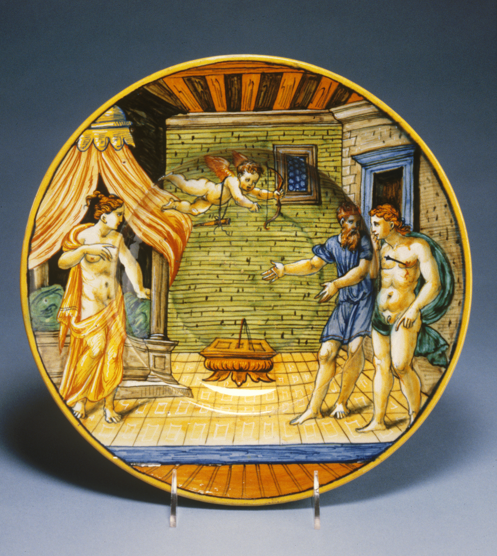 The subject is taken from the ancient historian Herodotus, who describes how King Candaules of Lydia caused his own downfall by letting Gyges see his wife, Queen Nyssia, naked. Although she did not let Candaules know, Nyssia was so outraged that she demanded that Gyges murder her husband in revenge. Here, Gyges has just been shot with one of Cupid's arrows to show that the sight of the queen made him fall in love.